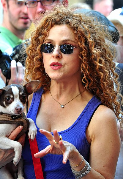 Actress Bernadette Peters attends 13th Annual Broadway Barks Benefit on July 9, 2011 at Shubert Alley in New York City.